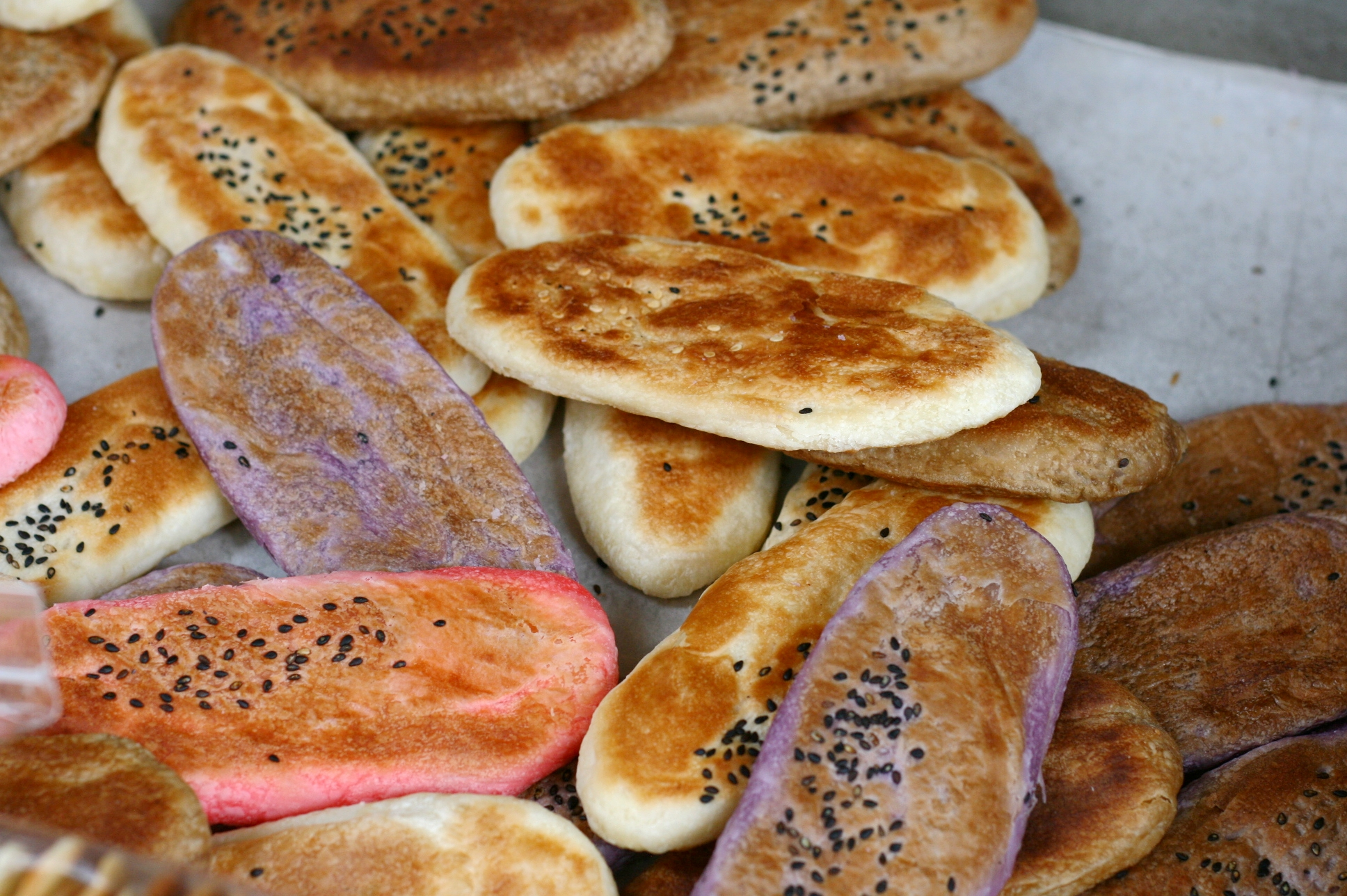 Ox-tongue-shaped pastry closeup in Lukang.